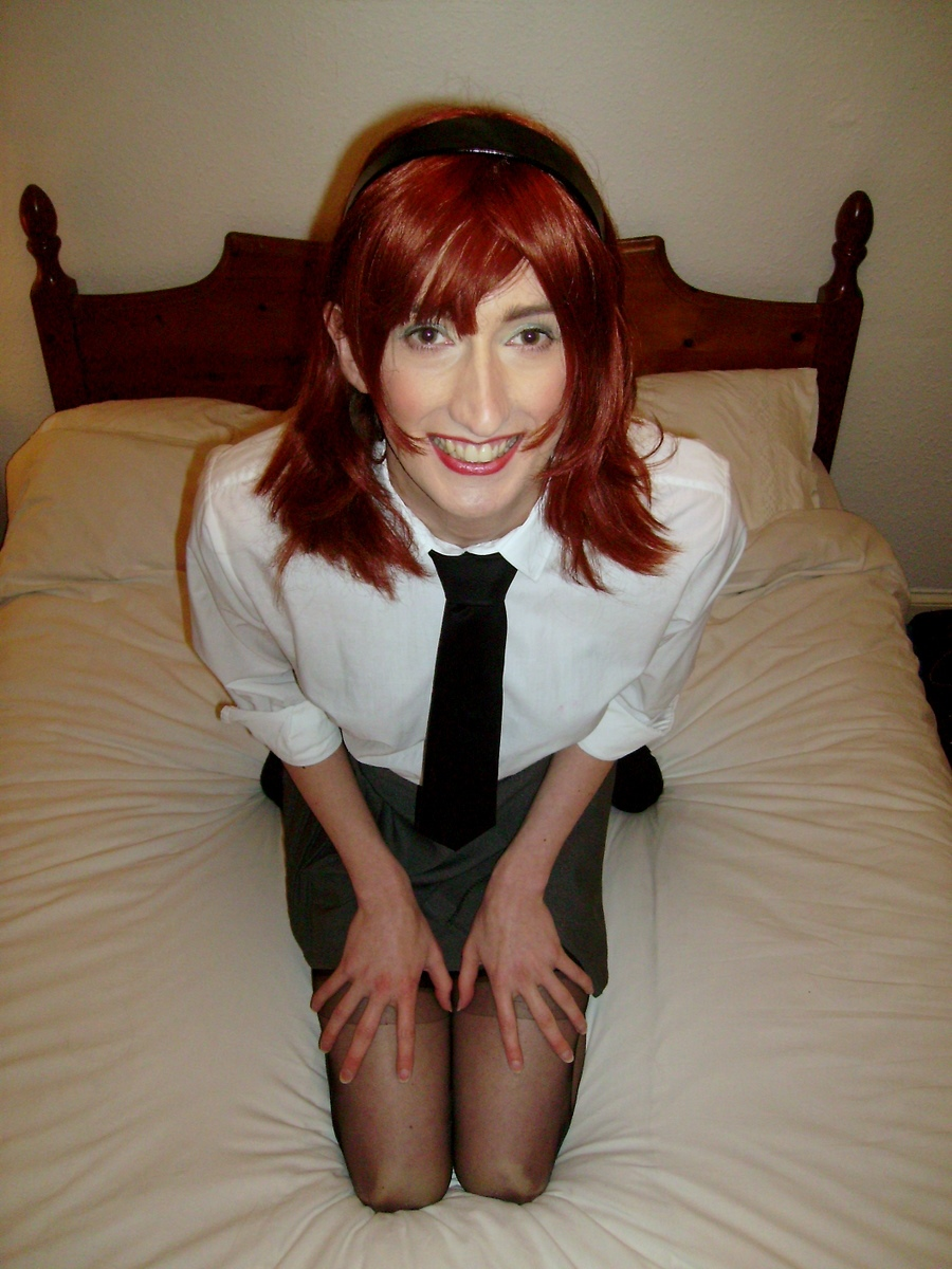 A transvestite with a red wig on.